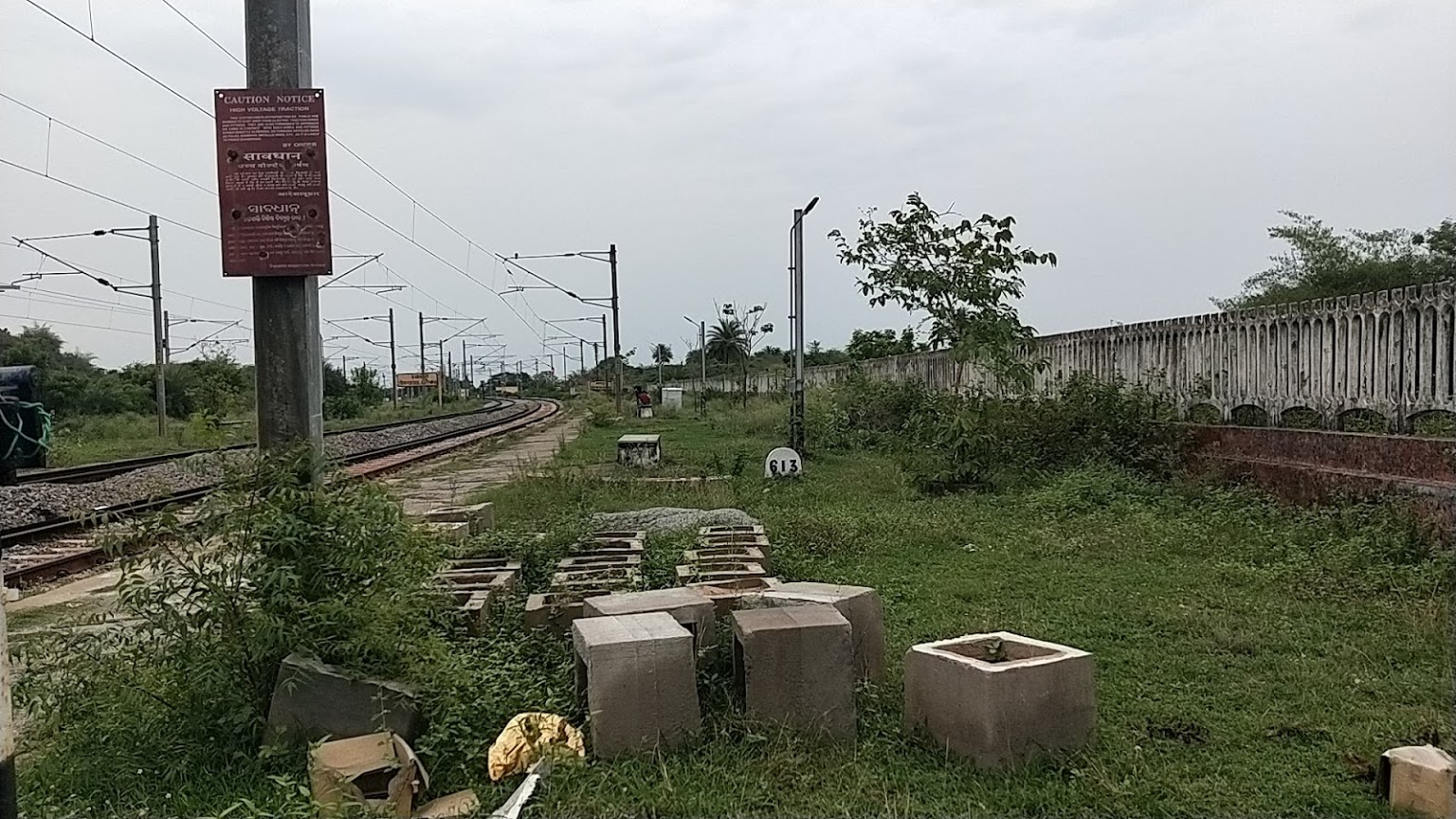 This is the Picture of Golanthra railway station